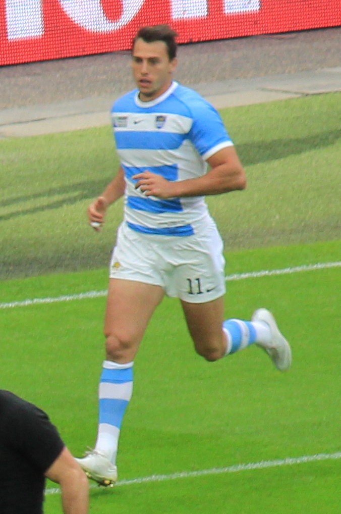 15-09 RWC New Zealand vs Argentina 033